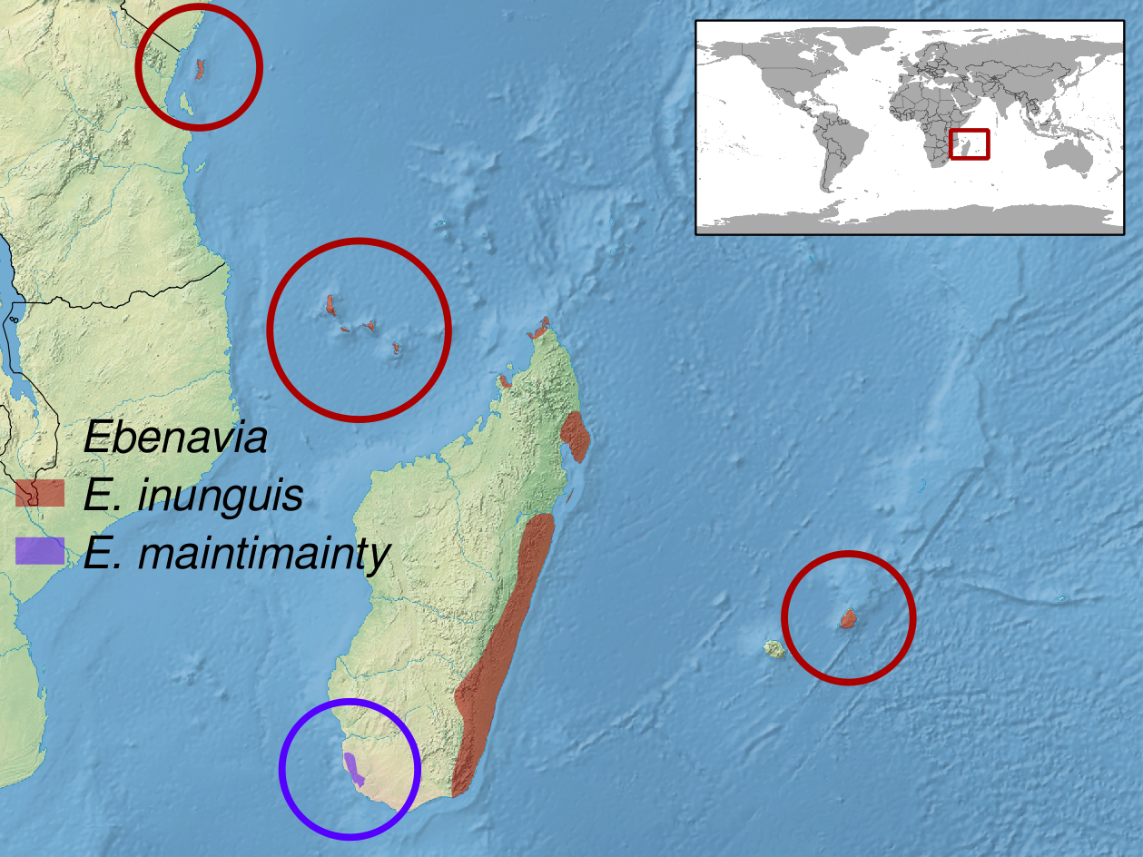 geographic distribution of the genus Ebenavia. Included species: Ebenavia inunguis and Ebenavia maintimainty.